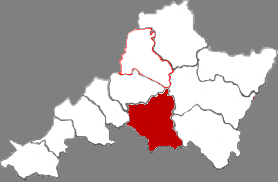 Location of Yushe county in JinzhongCity, China